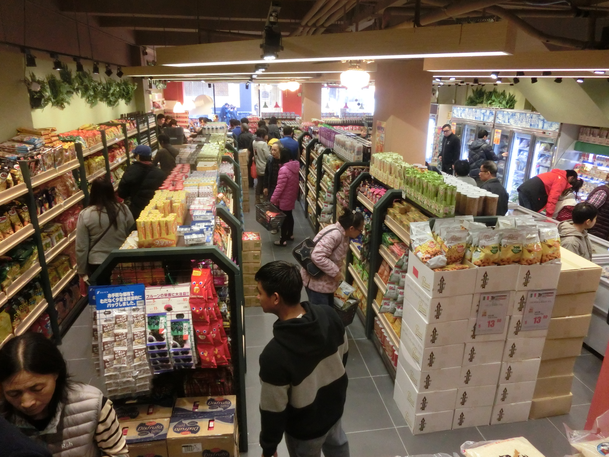 759阿信屋, 759 Store new opening in Queen's Road West, near Eastern Street, Sai Ying Pun, Hong Kong